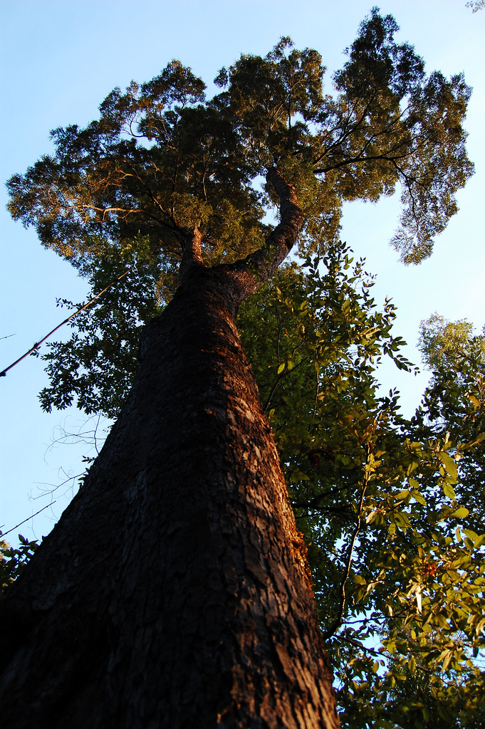 Nothofagus dombeyi, Nothofagus alpina, or Nothofagus betuloides